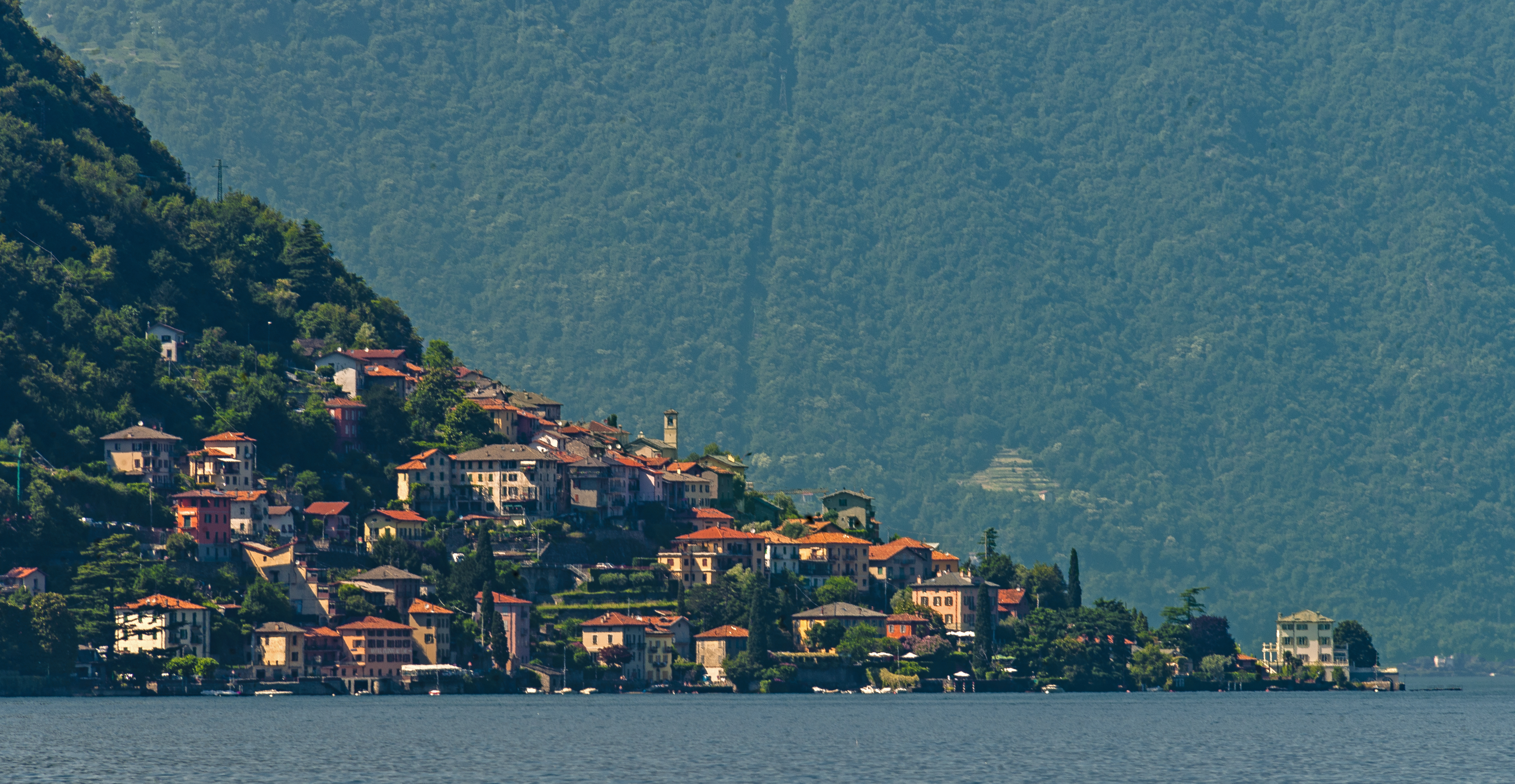 Laglio from the ferry up Lake Como